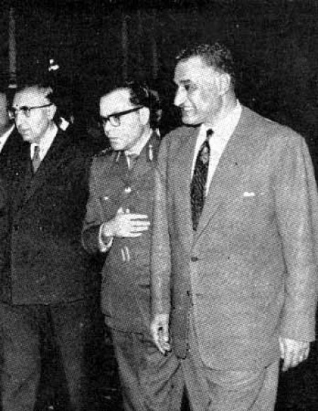 General Louai al-Atasi with Prime Minister Salah al-Bitar and President Gamal Abd al-Nasser of Egypt, during union discussions held in Cairo in March 1963.